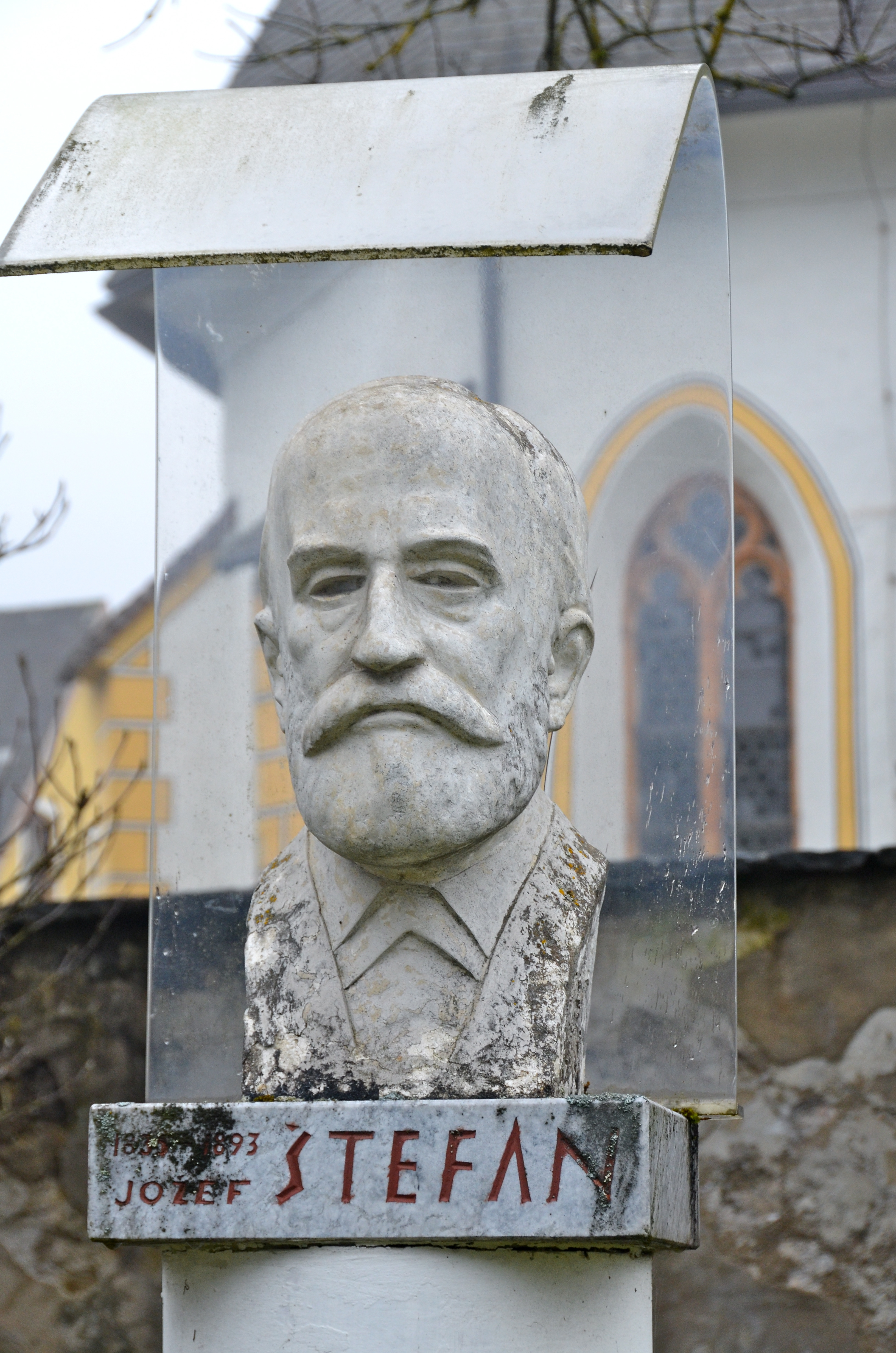 Bust of Jožef Štefan, created by the Slovenian sculptor France Gorše at the cultural park at Suetschach, market town Feistritz im Rosental, district Klagenfurt Land, Carinthia / Austria / EU